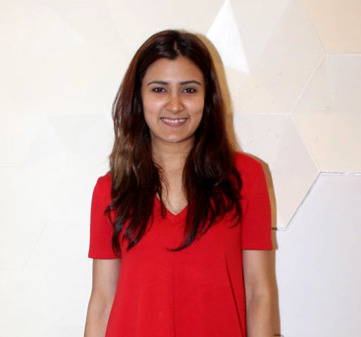 Aastha Gill snapped promoting their song